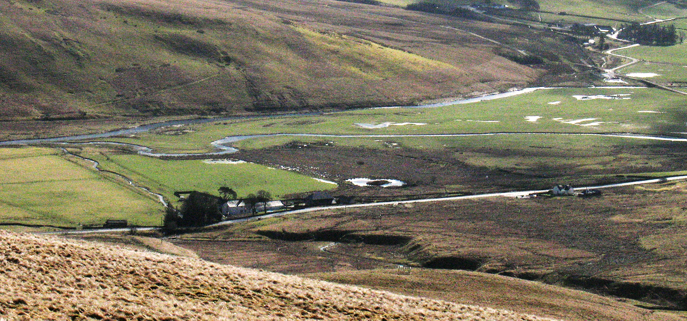 Source of the River Clyde - where Daer Water and Potrail Water meet.